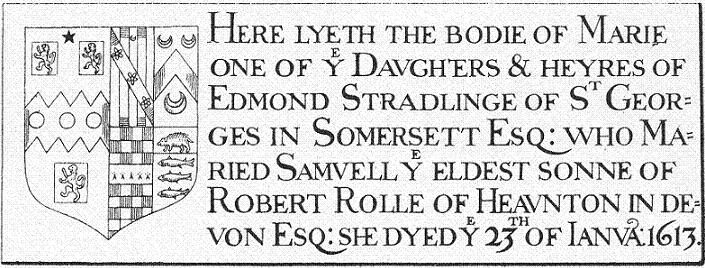 Monumental brass of Marie Stradling (d. 1613), a daughter of Edmond Stradling of St George's, Somerset (a member of the Stradling family of St Donat's Castle, Glamorgan) and wife of Sir Samuel I Rolle (c. 1588-1647) of Heanton Satchville, Petrockstowe, Devon, Member of Parliament for Callington, Cornwall in 1640 and for Devon 1641-1647. Church of St Stephen-by-Saltash, Cornwall, affixed to wall at east end of north aisle, formerly on floor by altar. Inscription: "Here lyeth the bodie of Marie one of ye daughters & heyres of Edmond Stradlinge of St Georges in Somersett Esq. who maried Samuell ye eldest sonne of Robert Rolle of Heaunton in Devon Esq. She dyed yr 23th of Janua. 1613". Armorials: Or, on a fesse dancetté between three billets azure each charged with a lion rampant of the first three bezants a mullet for difference (Rolle) impaling quarterly 1: Paly of six (shown here incorrectly as five) argent and azure on a bend gules three cinquefoils or (Stradling); 2: Azure, a chevron between three crescents or (Berkerolles of Coity Castle, Glamorgan; 3: Chequy...and...a fess ermine (Turberville of Coity Castle); 4: ...three fishes niant in pale...on a chief a hedgehog (?) (Dunkin, p.90)